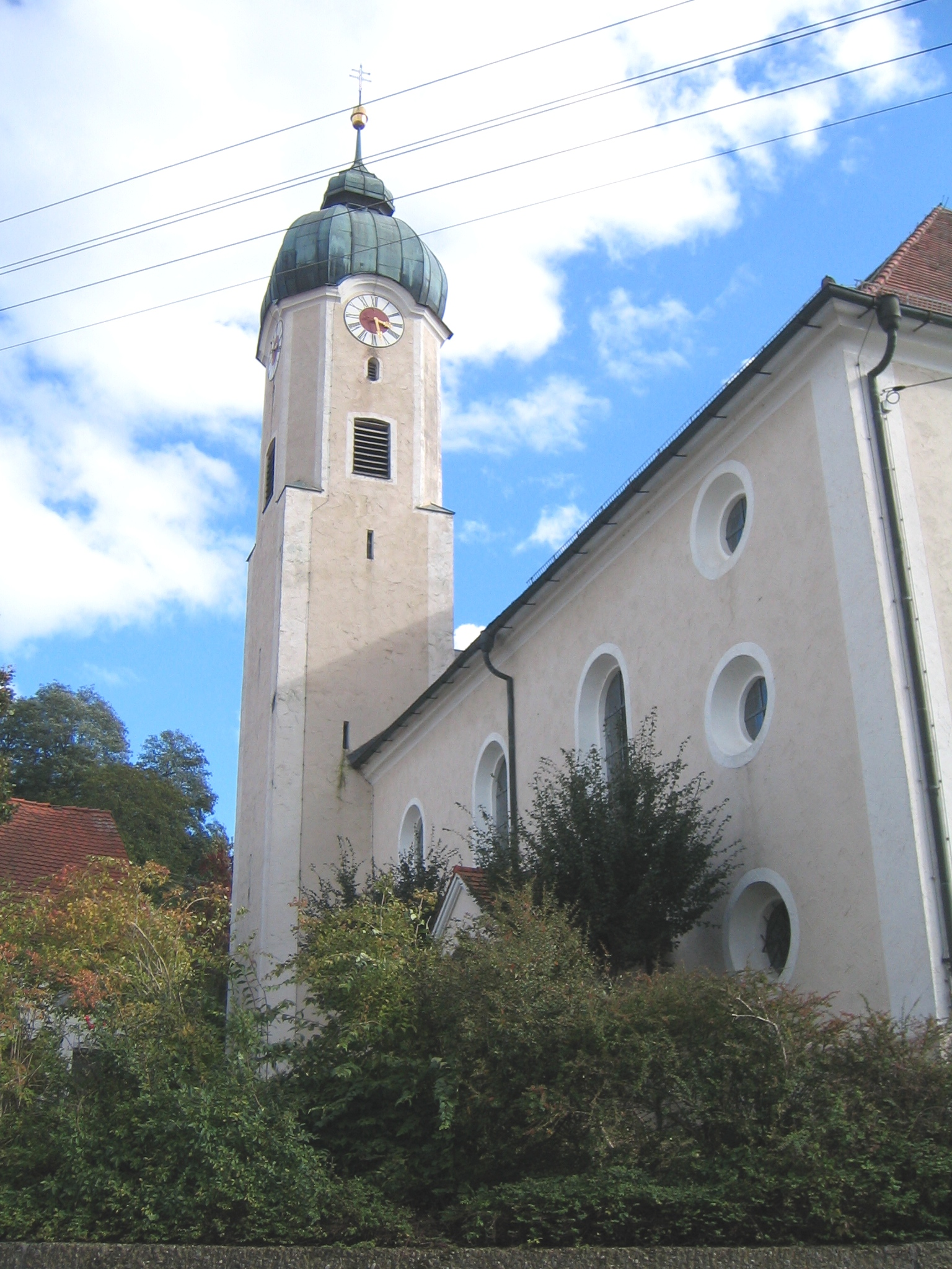 Parish church (Saint Valentin) in the village of Markt Buch in Bavaria, Germany